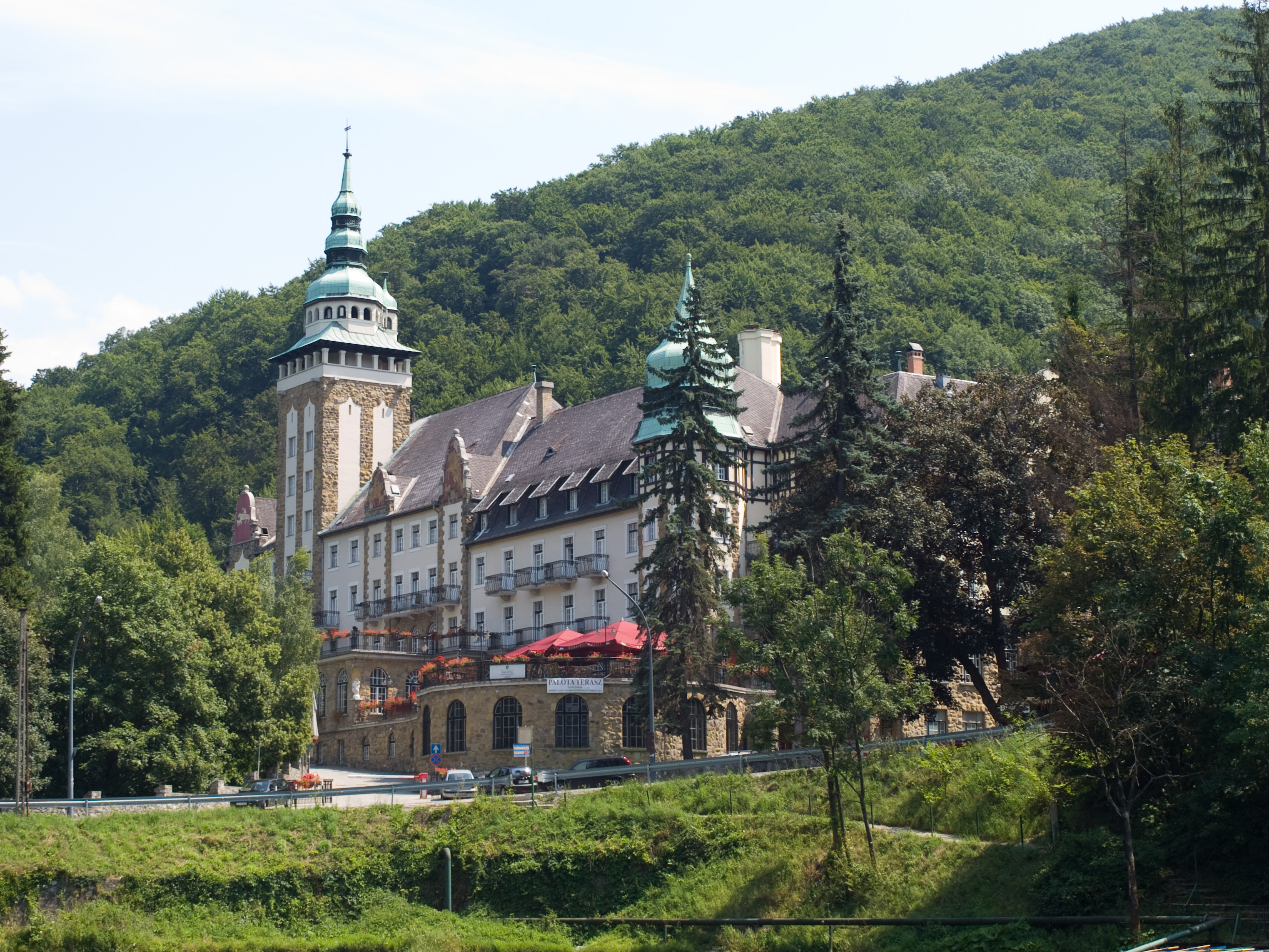 Lillafüred, Miskolc